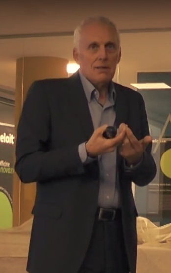 Richard Belluzzo's lecture at the inaugural workshop of the PoliHub Advisory Program 2017. A long time Tech executive, Belluzzo has been involved in a wide range of companies as CEO, Board Member, Investor, and recently Venture Partner at Innogest Capital. He began his career with Hewlett Packard and spent 23 years at the company. Much of his time was focused on leading and building the Printing and PC business. His last role was as Executive VP of the Computer Organization. Belluzzo also spent time as CEO of SGI and held several roles at Microsoft, including Group VP of the Consumer Organization and President/COO of the company. He spent 9 years as CEO of Quantum Corp and recently was Interim CEO of Viavi Solutions. Currently he is US Venture Partner for Innogest, the leading Italian Venture firm. Belluzzo also serves on the Boards of several public and Private companies.